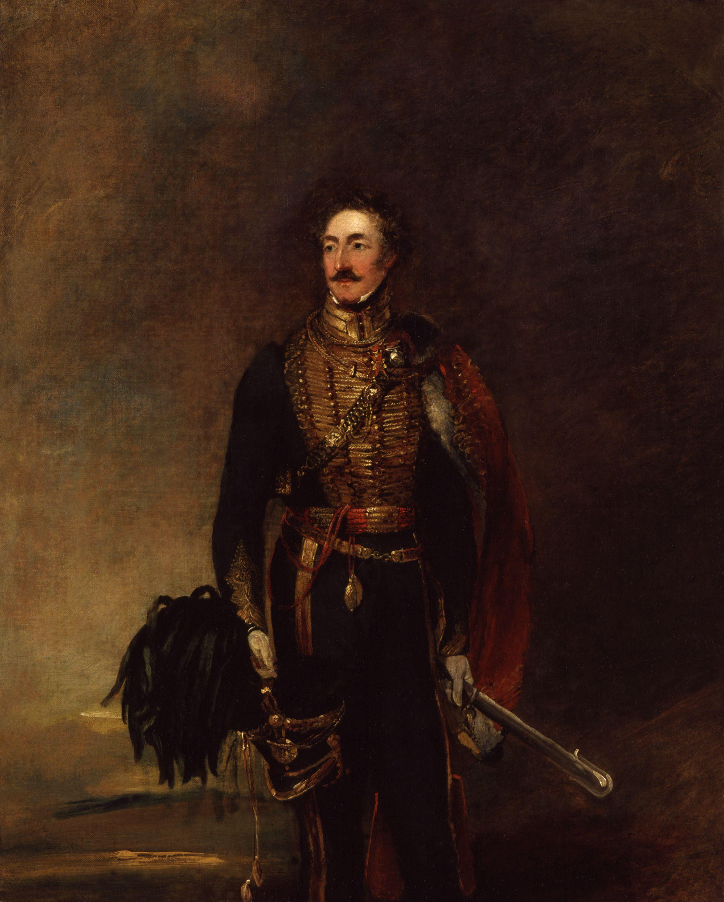 Sir Henry Wyndham, by William Salter (died 1875). British Army General and Conservative Party politician. He was Member of Parliament (MP) for Cockermouth from 1852 to 1857 and for West Cumberland from 1857 to until his death in 1860. All images in this batch have been confirmed as author died before 1939 according to the official death date listed by the NPG.